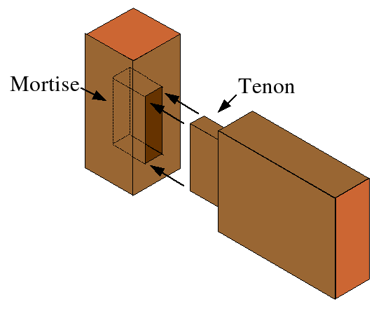 Mortise and Tenon Joint, drawn by Jim Thomas using OpenOffice Draw. 23 Nov 2005